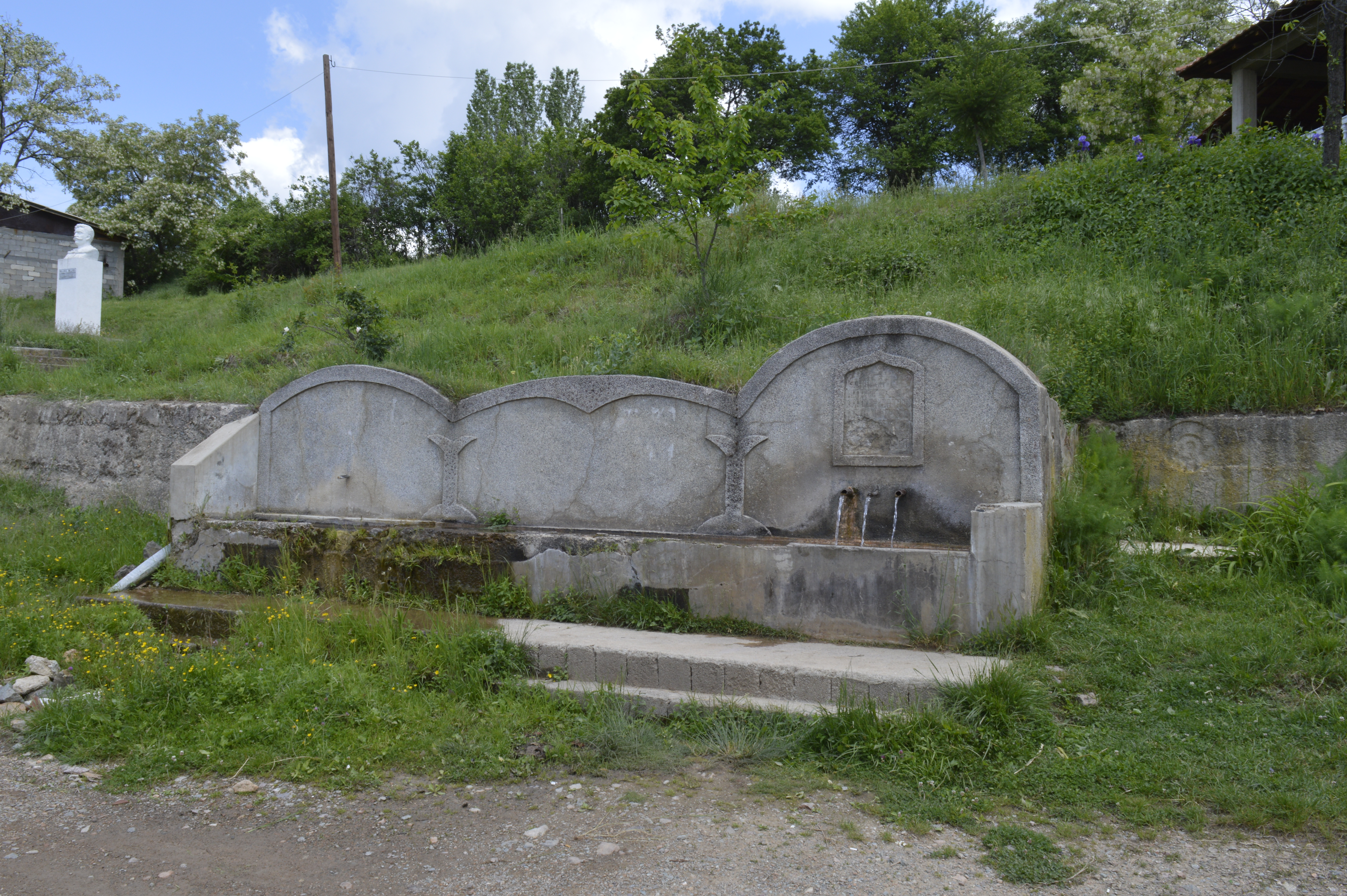 Village pump in Pančarevo